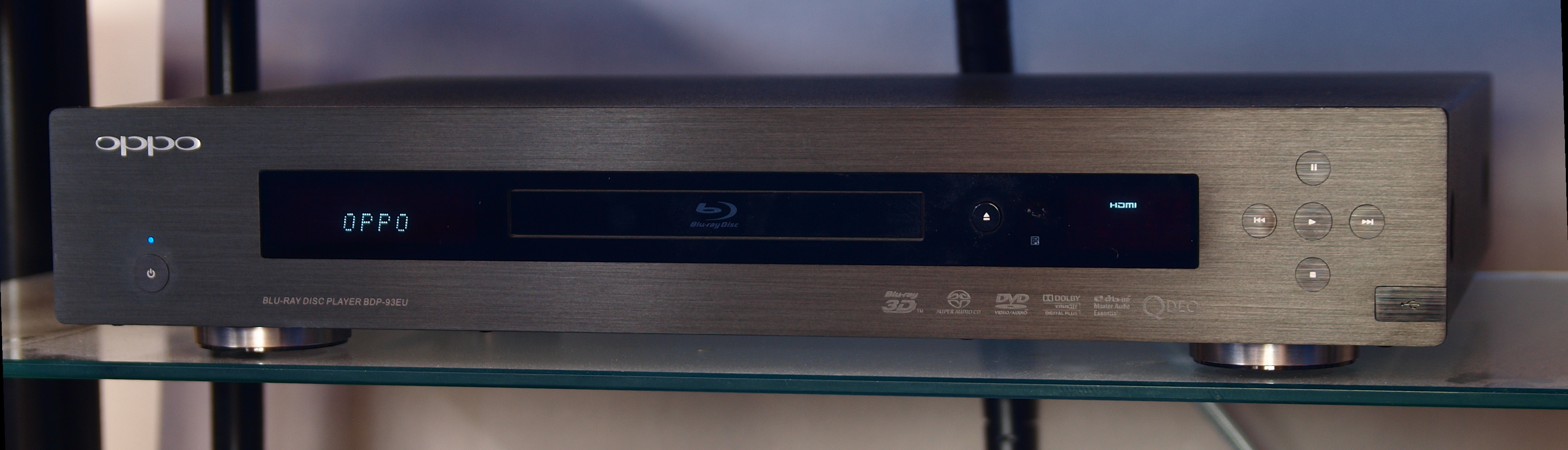 OPPO BDP-93. Universal Blu-ray disc player. Display content showing boot process. Length: 430 mm (16.92 in); Height: 79 mm (3.11 in); Depth: 311 mm (12.24 in) dimensions QS:P2043,430U174789;P2048,79U174789;P5524,311U174789 Weight: 4.9 kg (10.88 lb)